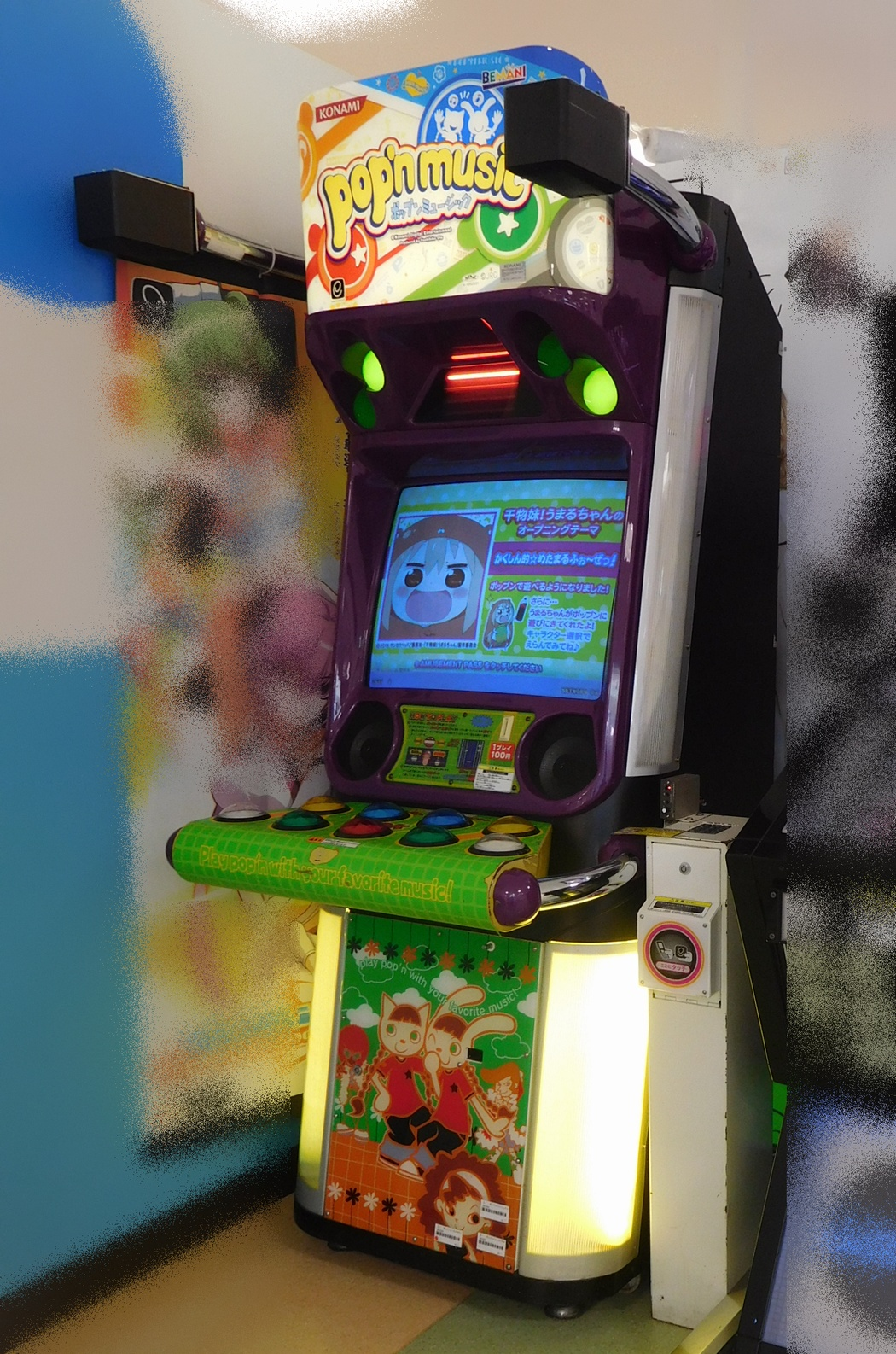 Konami - "pop'n music éclale"